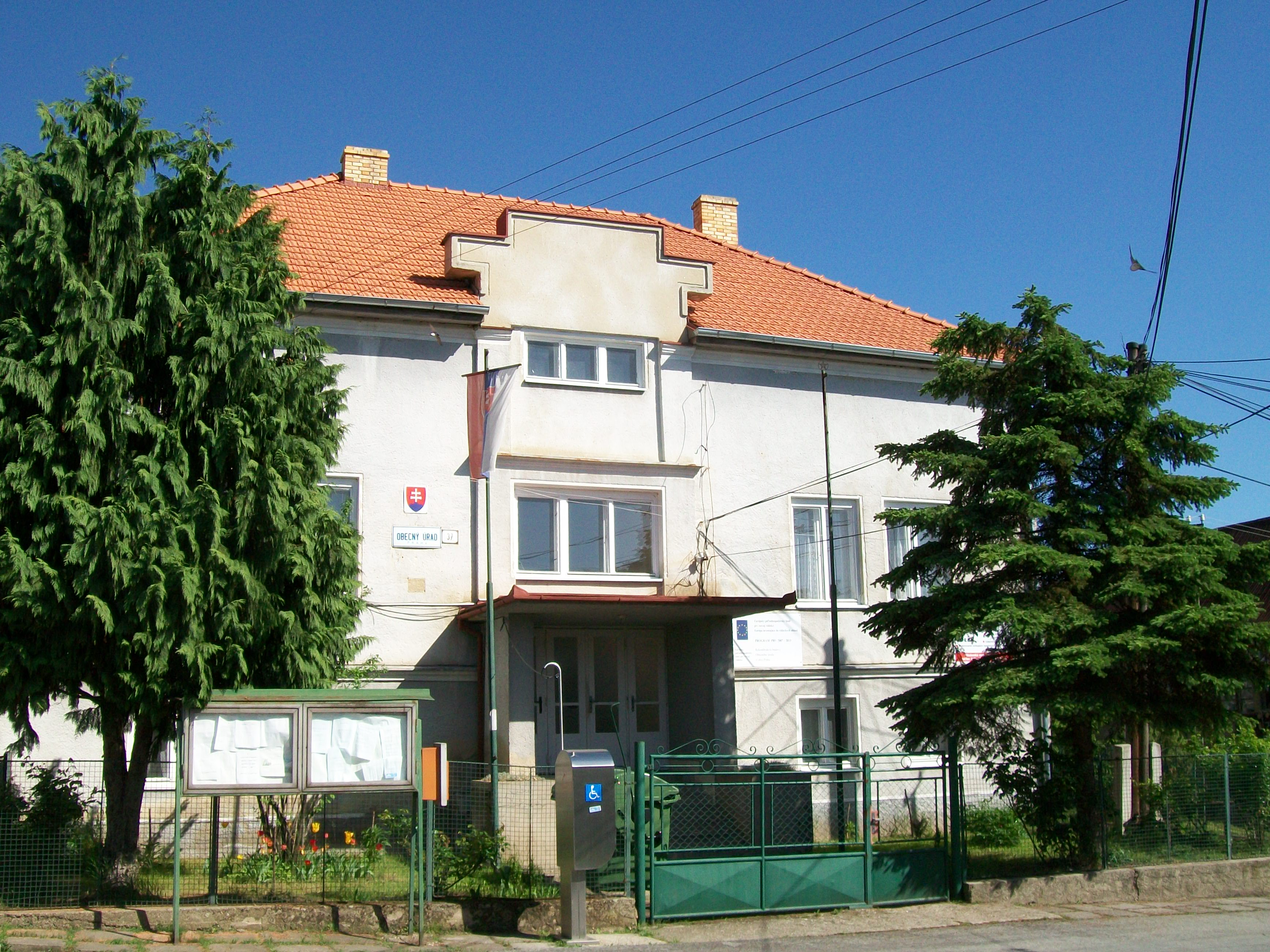 Municipal office in the village PrahaSlovenčina: Obecný úrad v obci Praha (okres Lučenec)